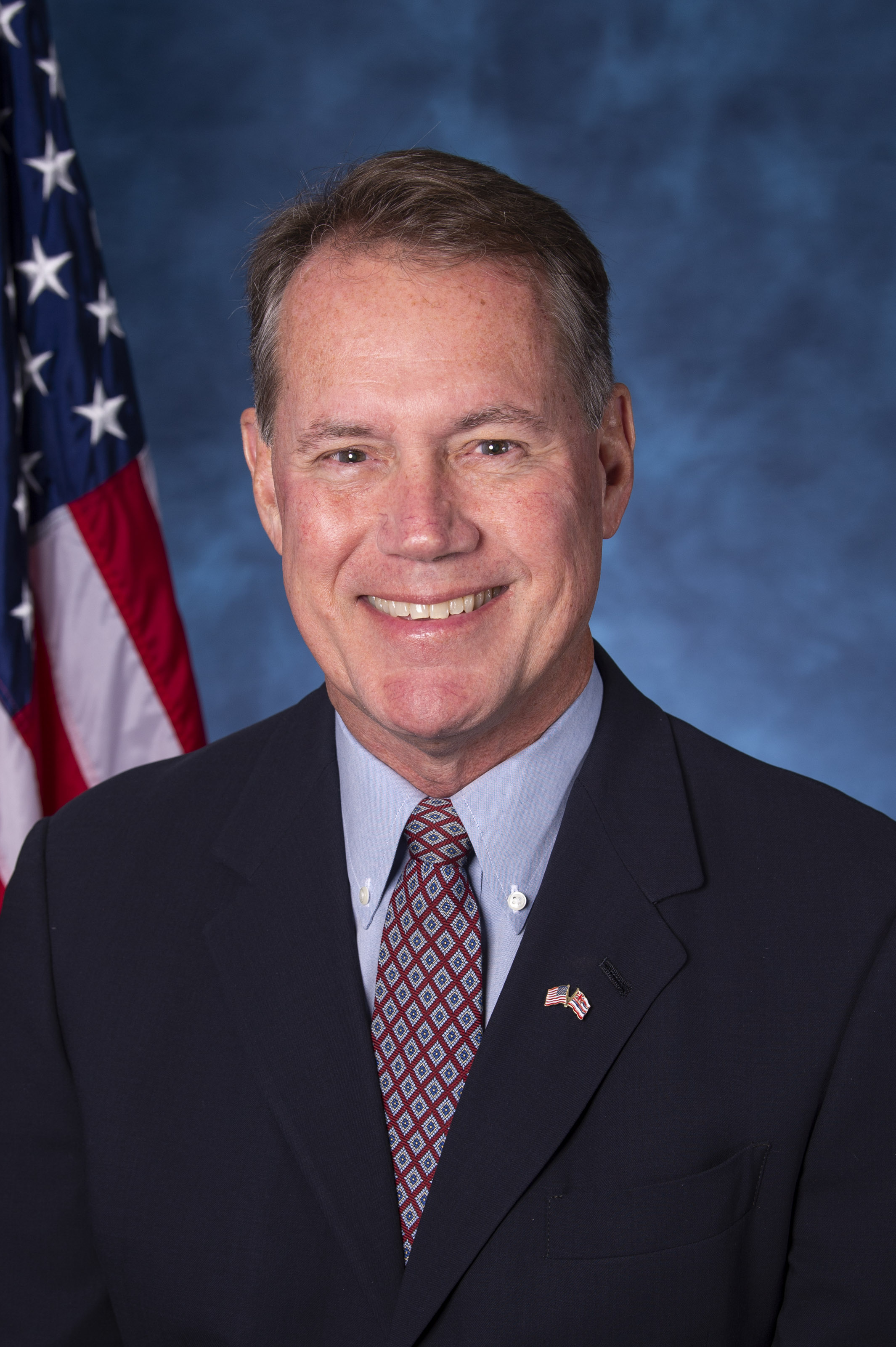 Newest portrait of Rep. Ed Case (D-HI01)